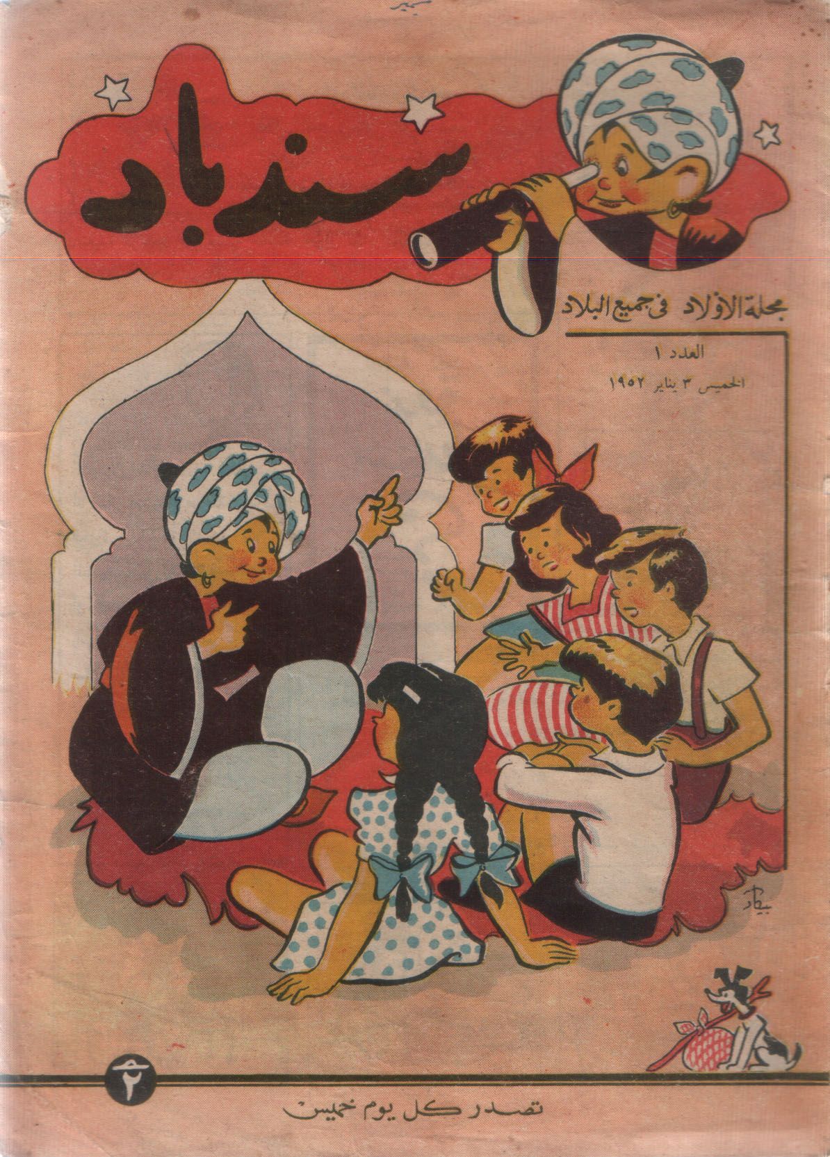 This image is of the cover of the first edition of Sindbad children's magazine that dates back to January 3rd 1952 and it was published by a famous publishing house in Egypt called " Dar Al Ma'aref" which of course held its copyrights, but those copyrights have expired because this work was published prior to 1962 and for this reason this image is licensed as Public Domain in Egypt